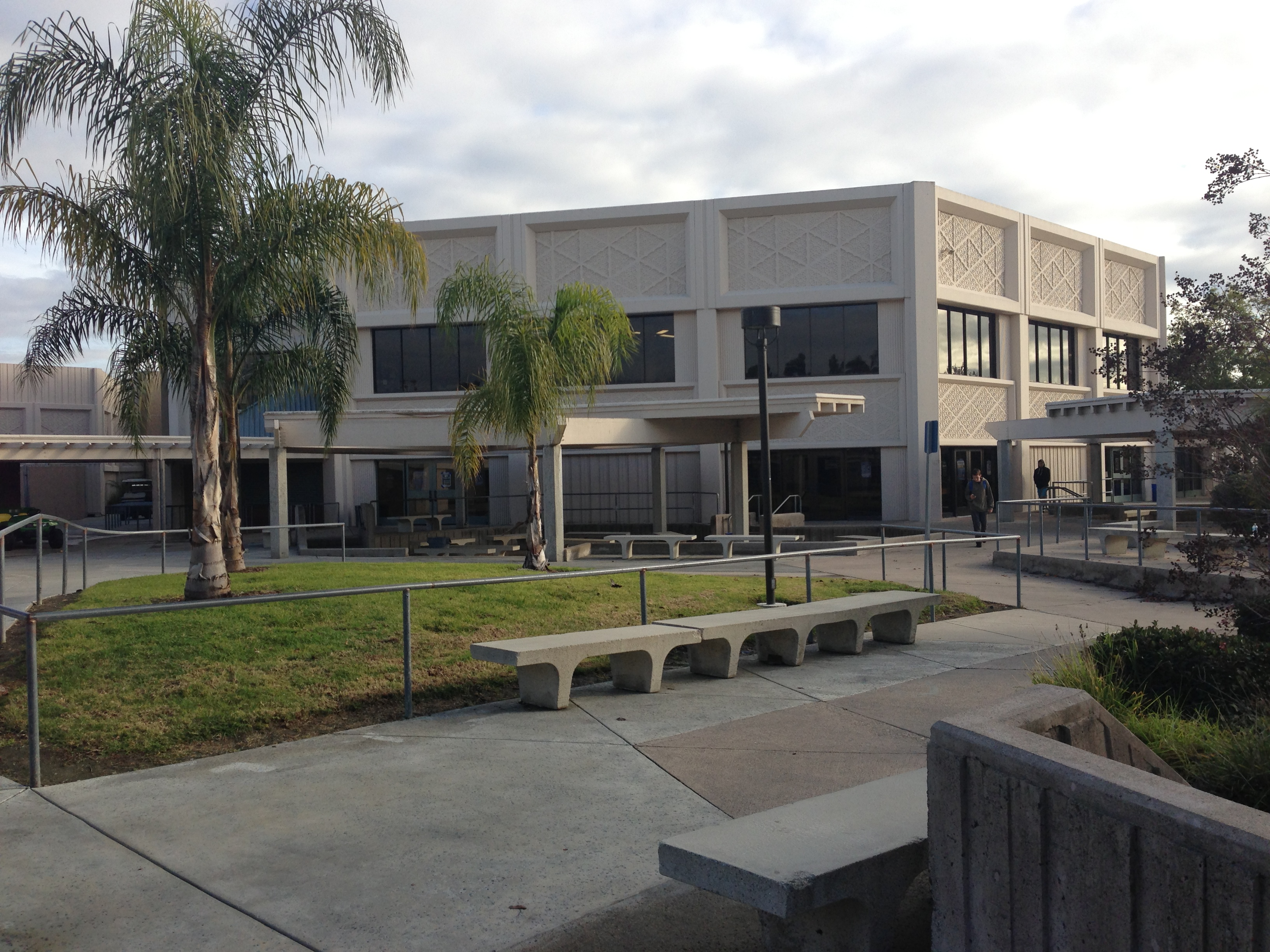 One building on the campus of Irvine High School, Irvine, CA